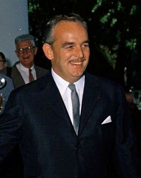 Prince Rainier III at the White House